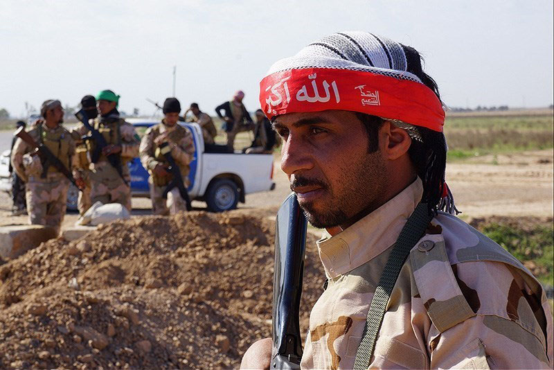 Iraqi Army and Hashed al-Shaabi (Popular Mobilization Forces of Iraq) fighting against the Islamic State in Saladin Governorate.